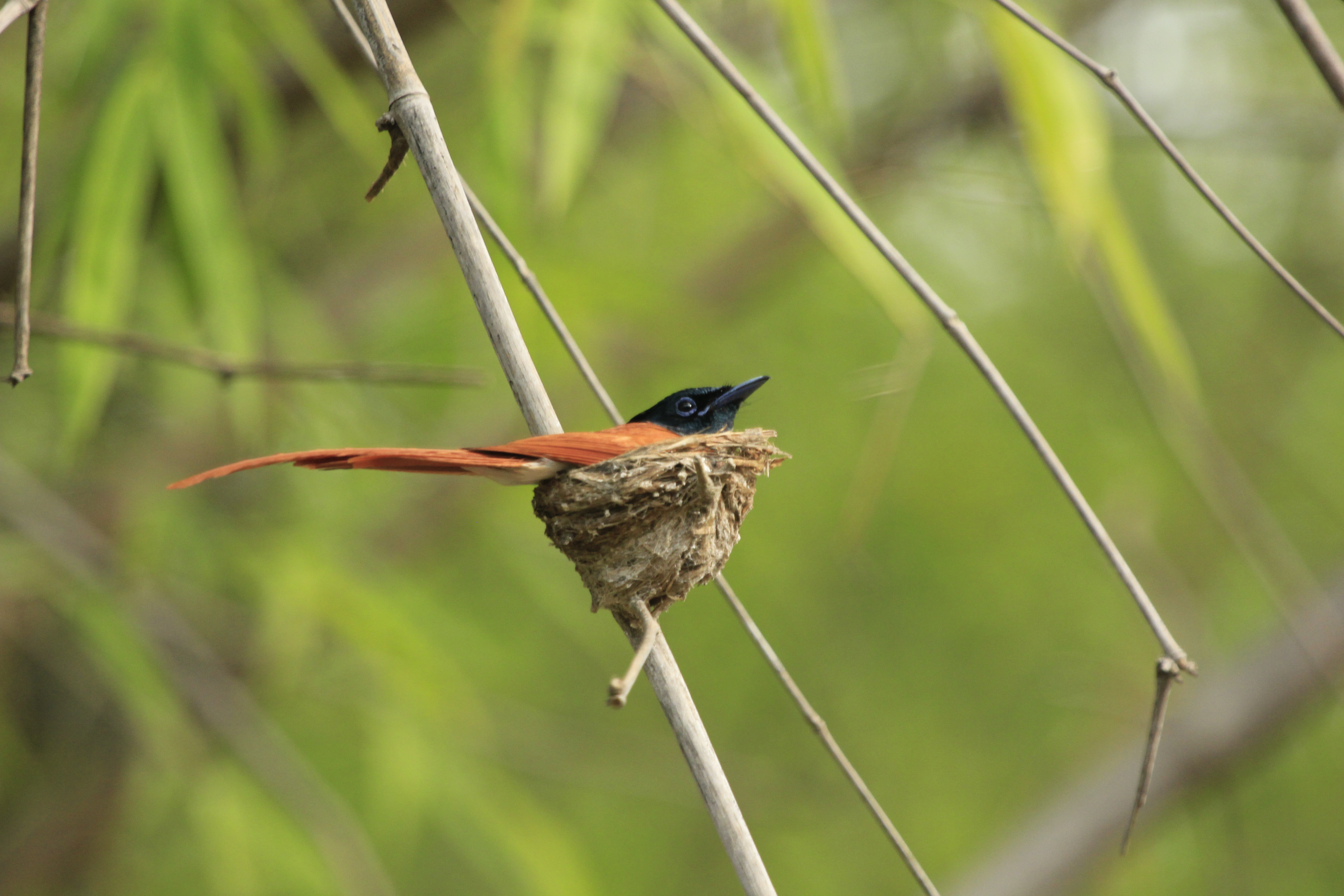 Indian Paradise Flycatcher - Female - Tadoba Andhari Tiger Reserve, Chandrapur, Maharashtra, female guarding its nest weaved on a bamboo twig.